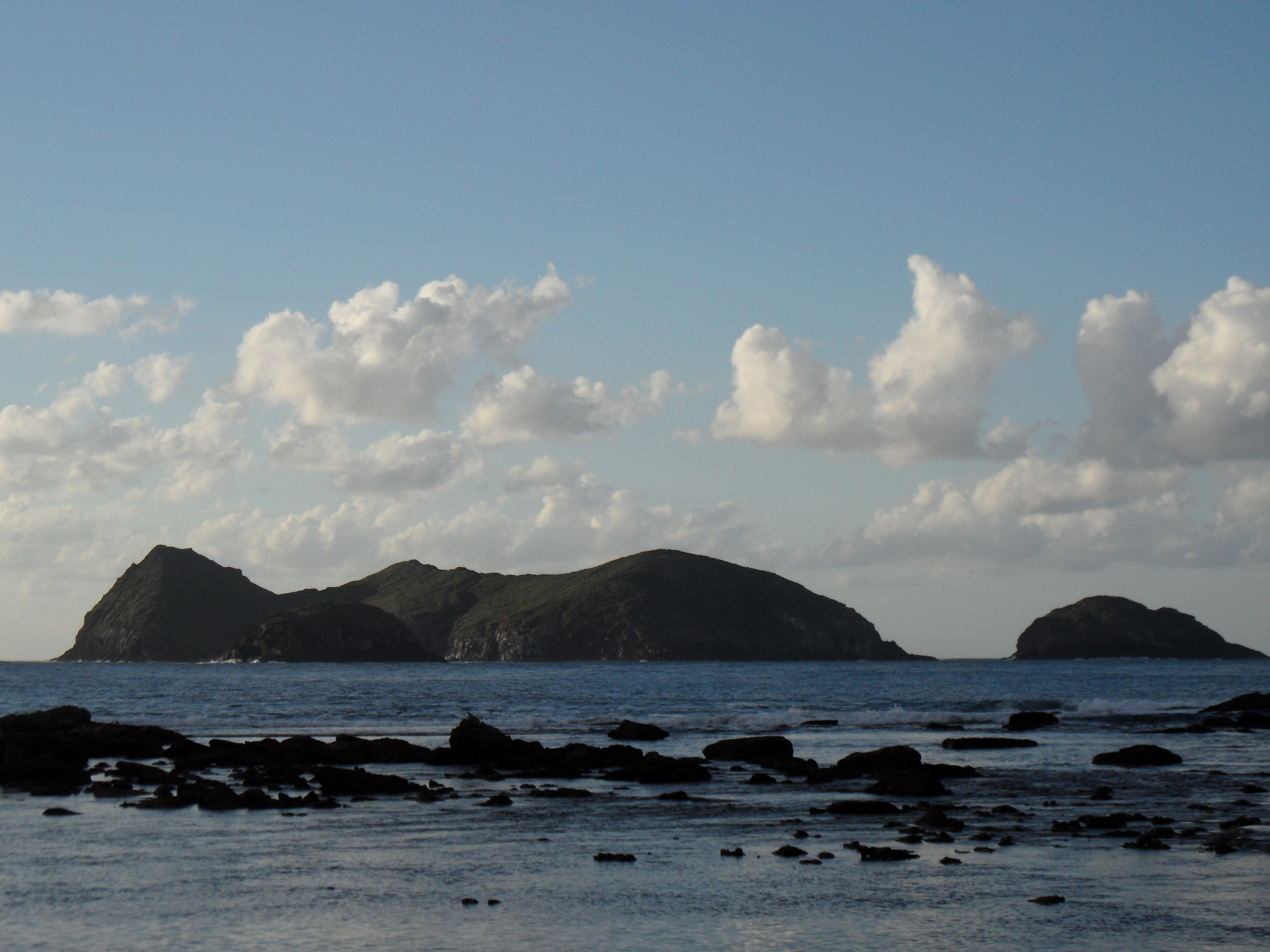 Admiralty group